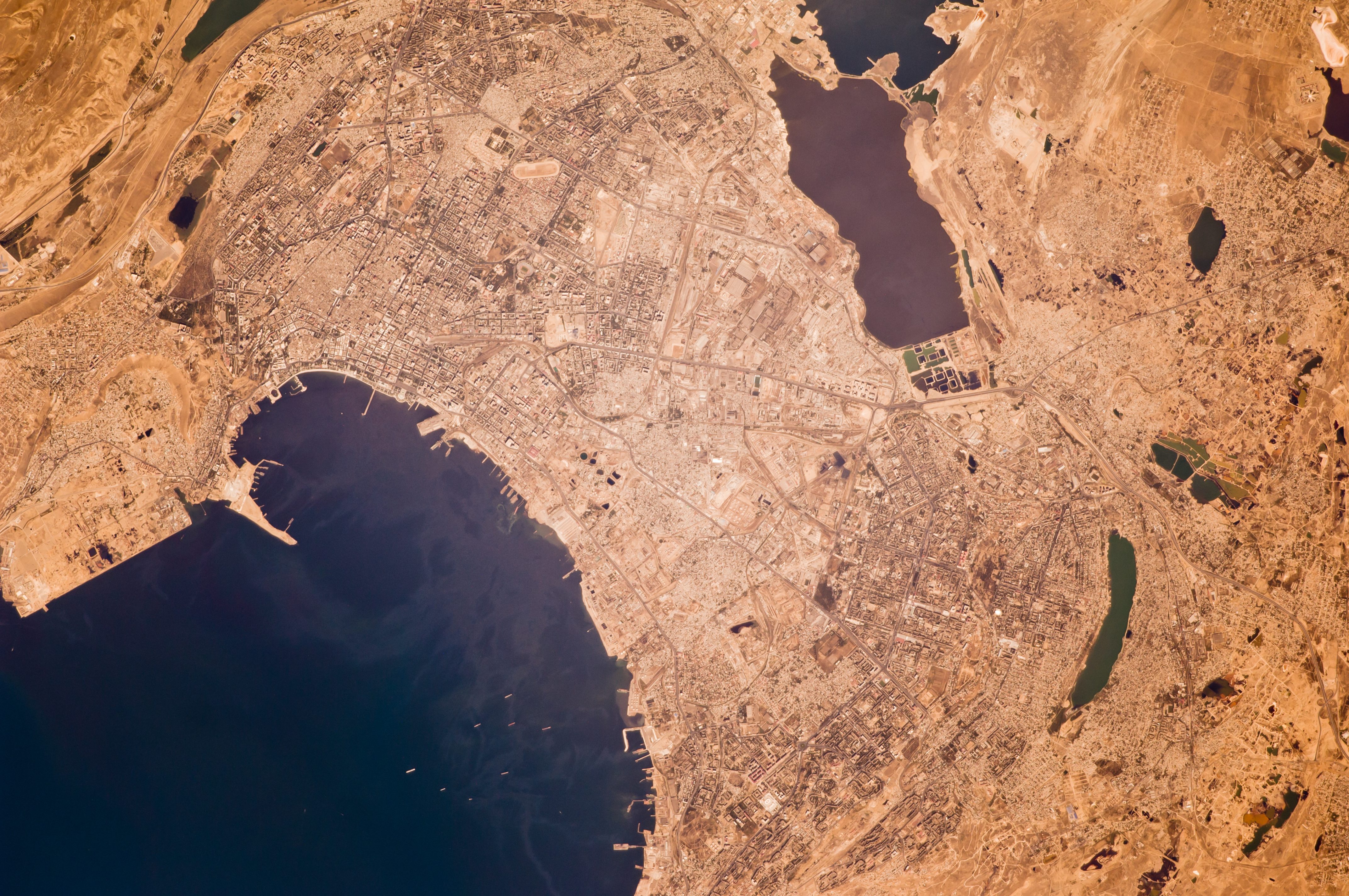 Astronaut Photo of Baku, Azerbaijan taken from the International Space Station (ISS) during Expedition 24 on August 6, 2010. ISS Crew Earth Observations: ISS024-E-11003IdentificationMissionISS024 (Expedition 24)RollEFrame11003Country or Geographic NameAzerbaijanFeaturesBAKU, CASPIAN SEA, BAKIXANOV, QARACUXURCenter Point Latitude40.4° NCenter Point Longitude49.9° ECameraCamera Tilt42°Camera Focal Length400 mmCameraNikon D2XsFilm4288 x 2848 pixel CMOS sensor, RGBG imager color filter.QualityPercentage of Cloud Cover0-10%Nadir What is Nadir?Date2010-08-06Time07:12:25Nadir Point Latitude41.5° NNadir Point Longitude47.3° ENadir to Photo Center DirectionEastSun Azimuth130°Spacecraft Altitude188 nautical miles (348 km)Sun Elevation Angle57°Orbit Number3135